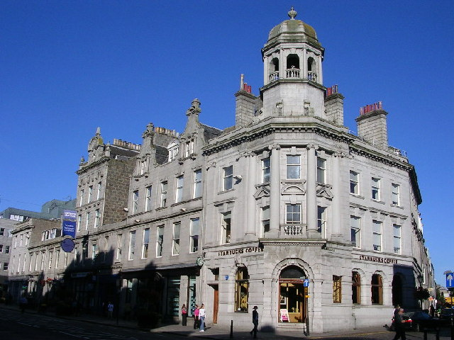 Granite Buildings on Union Street.